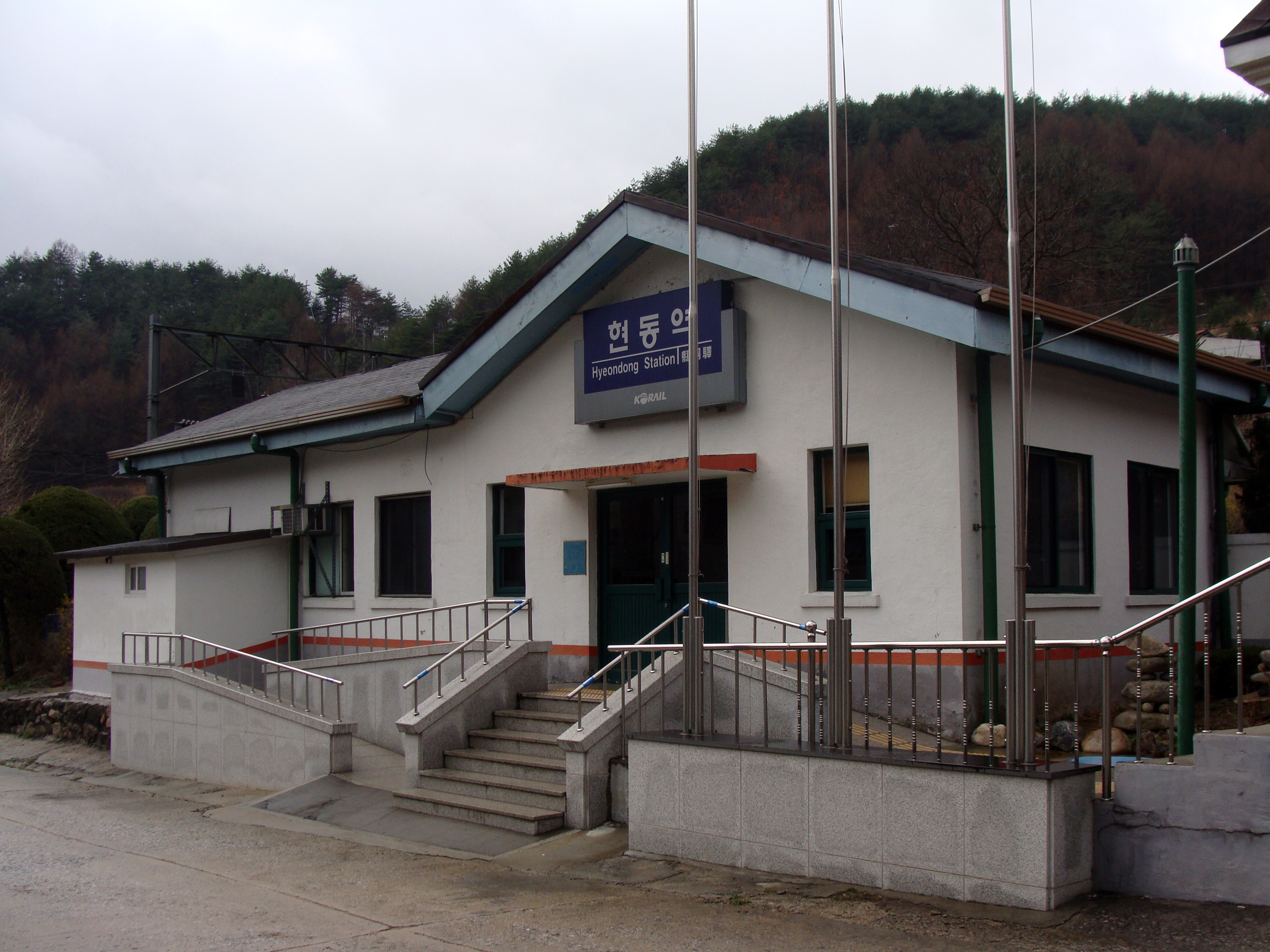 Hyeondong Station of Yeongdong Railway Line, South Korea